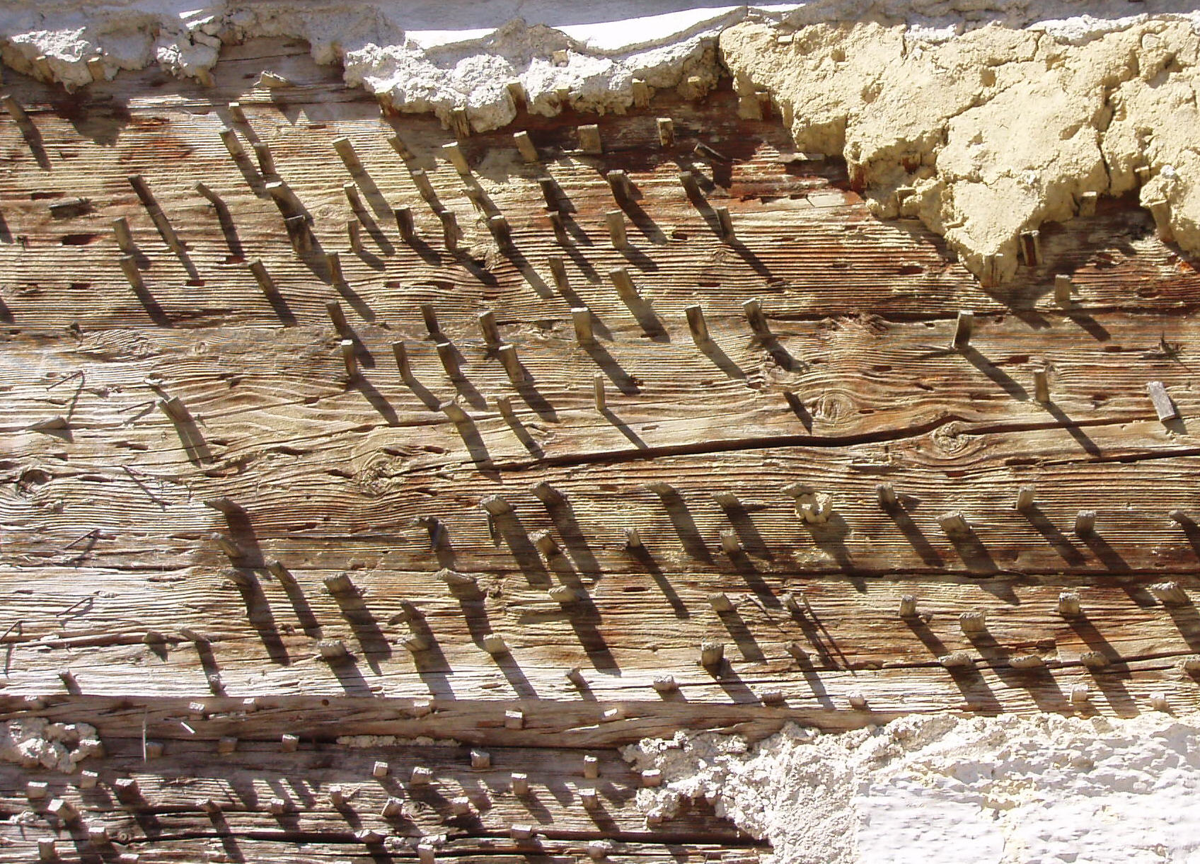 Sonthofen, Möggenried-Haus